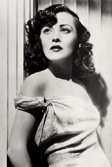 Sally O'Neil